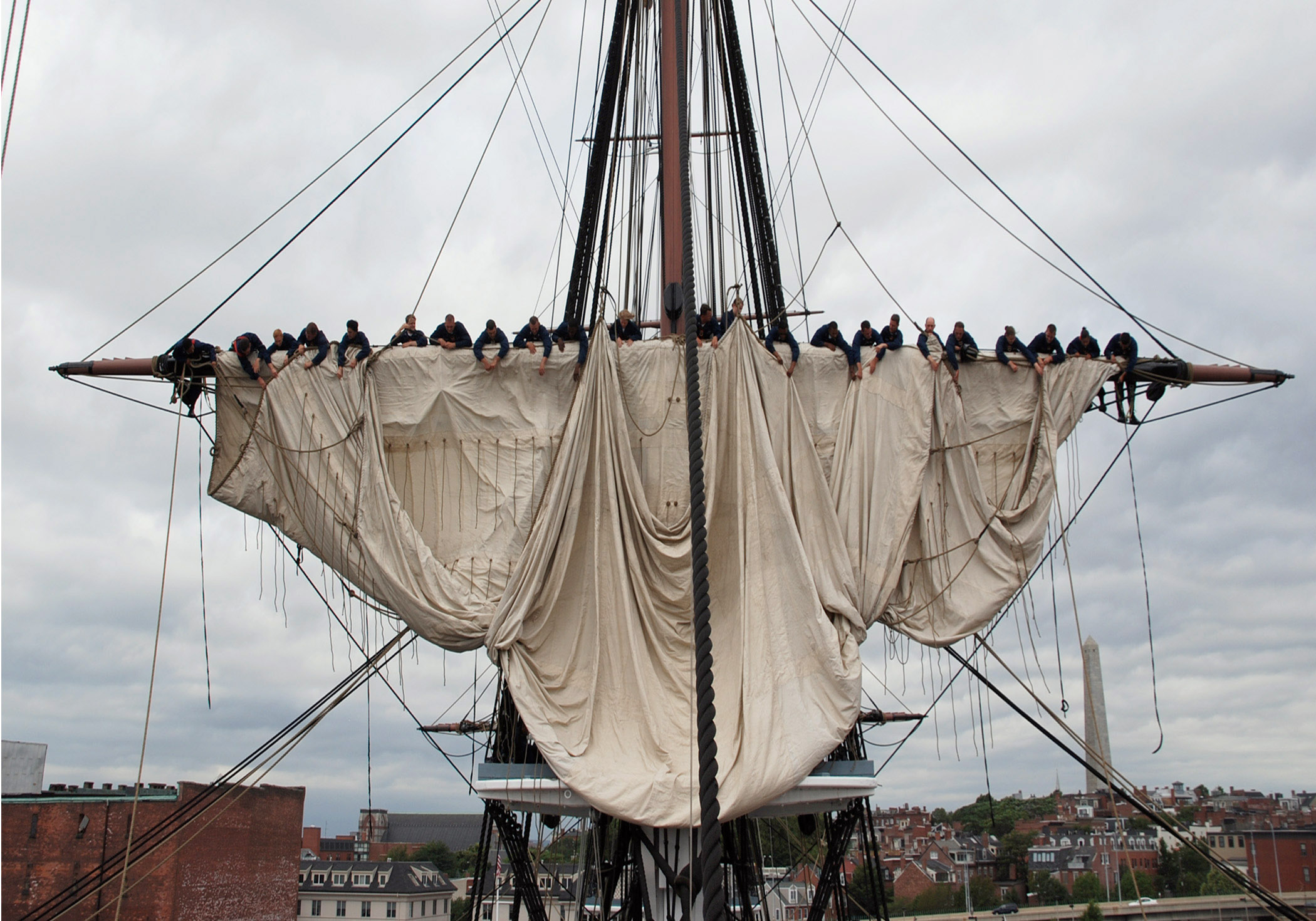 CHARLESTOWN NAVY YARD, Mass. (Aug. 6, 2007) - USS Constitution crew members practice setting and furling the ship’s main topsail in preparation for the Chief Petty Officer selectee events held aboard every year during the last two weeks of August. USS Constitution is – at 209 years old – the oldest commissioned warship afloat in the world, manned by 64 active duty U.S. Navy Sailors, and visited by nearly half a million tourists annually. U.S. Navy photo by Information Systems Technician 2nd Class Jack Shrader (RELEASED